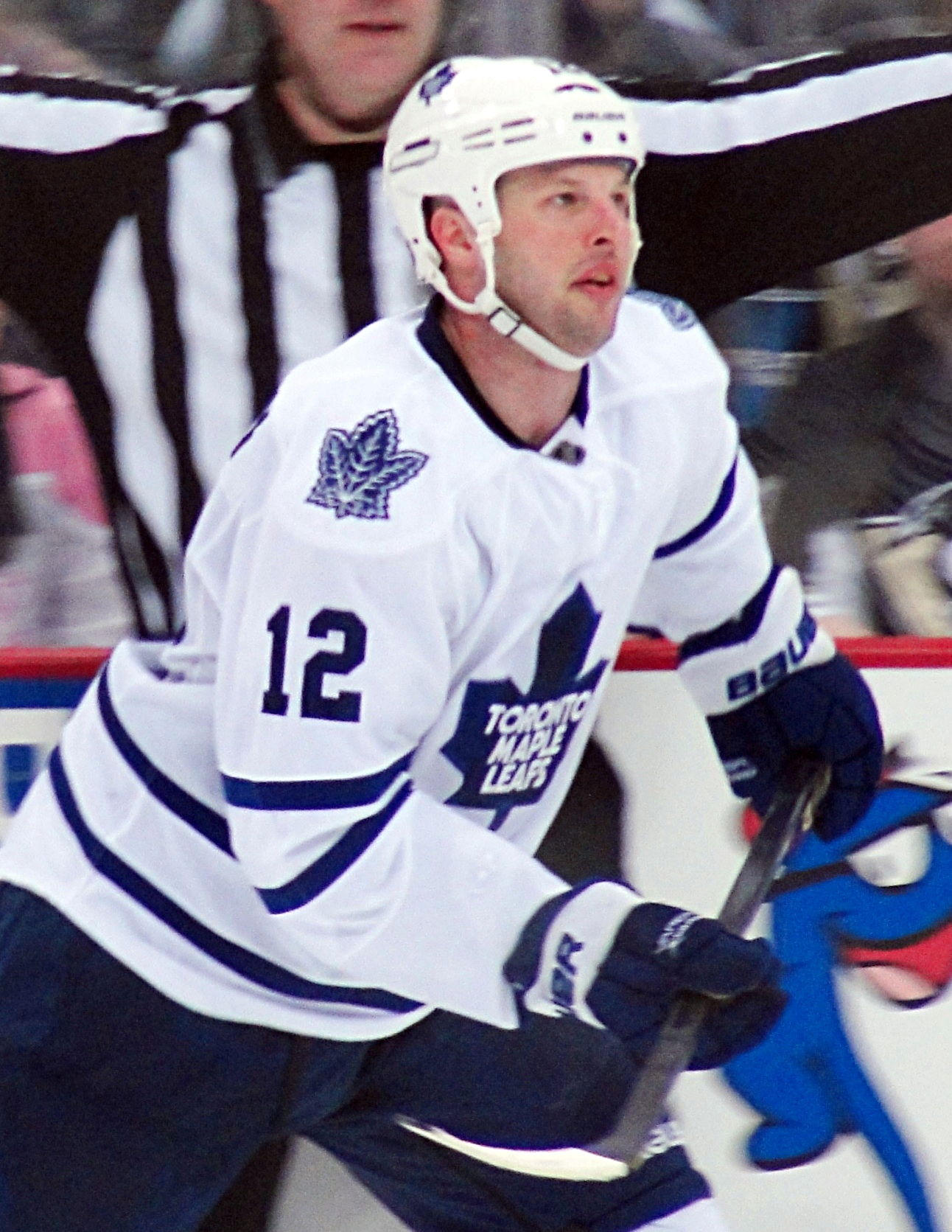 Toronto Maple Leafs skates against the Pittsburgh Penguins, March 7, 2012 at Consol Energy Center in Pittsburgh, PA.